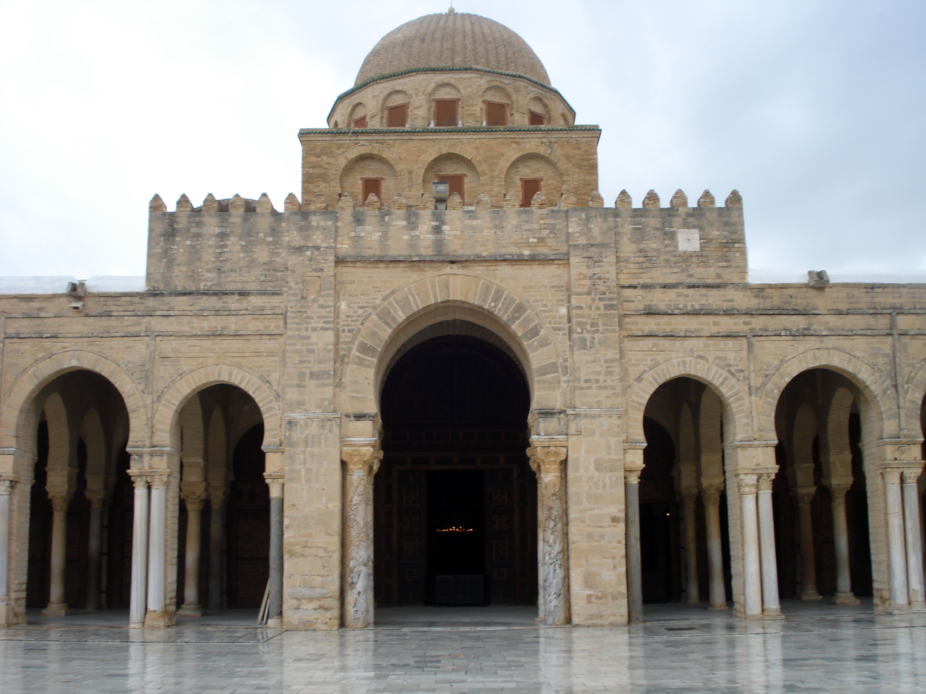 Great Mosque of Kairouan (Tunisia)